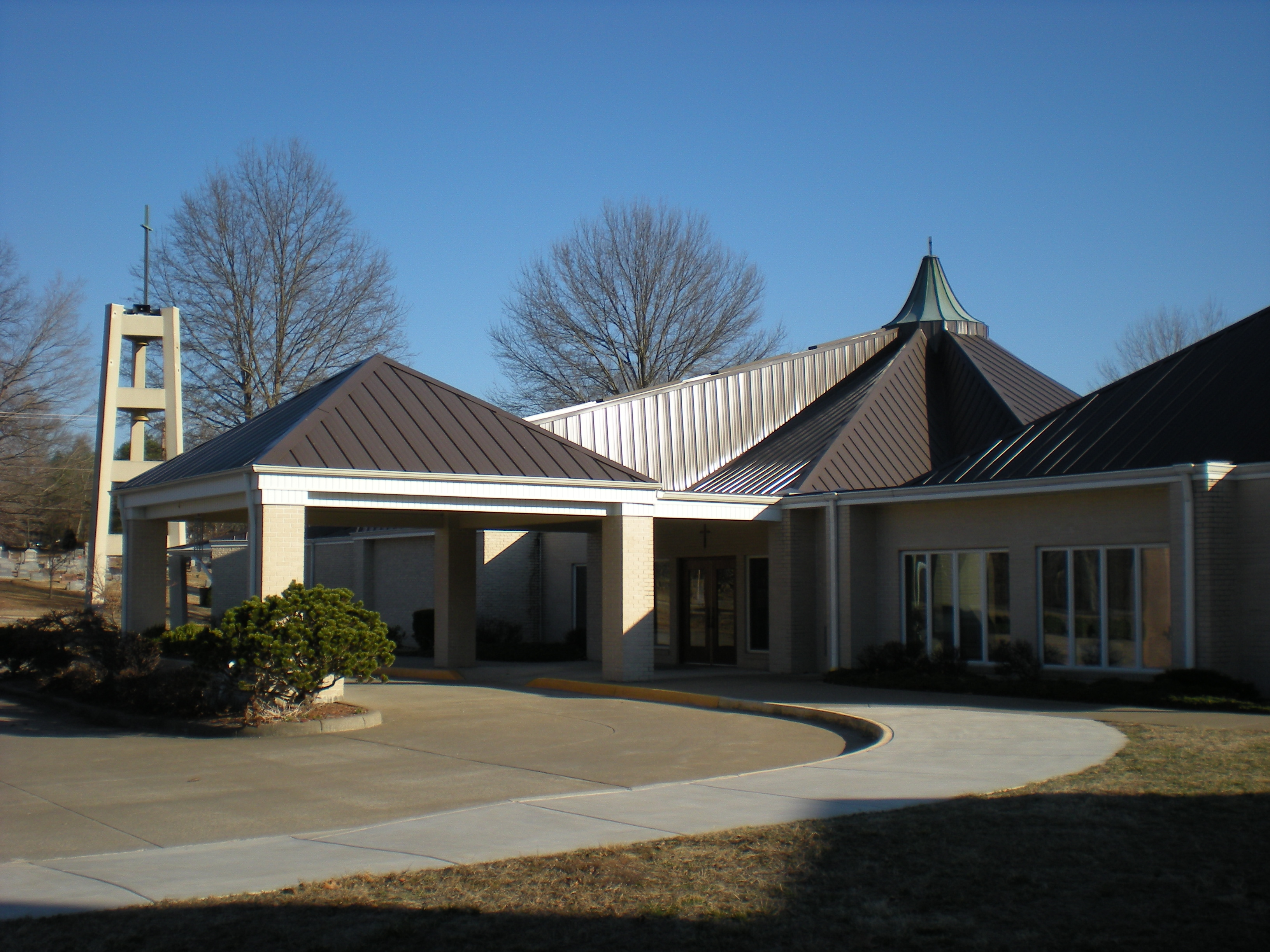 Hanover Lutheran Church, Winter 2011